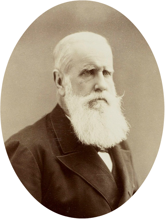 Emperor Pedro II of Brazil around age 61, c.1887